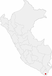 Location of the city of Tacna in Peru Created by Tuomas Carrasco - Feb. 2005